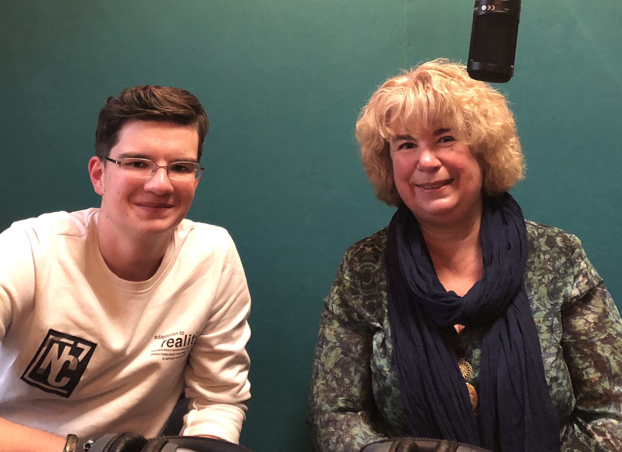 Radostina Angelova and Alexander Stankov - writers